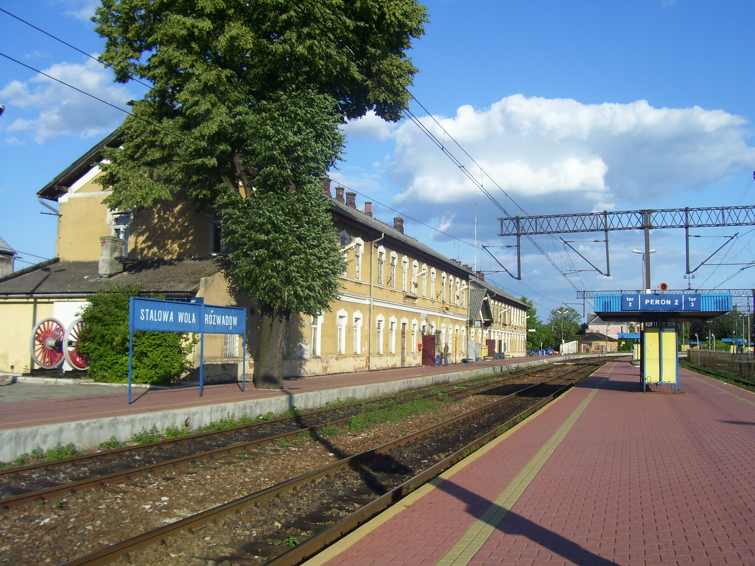 Stalowa Wola Rozwadów railway station